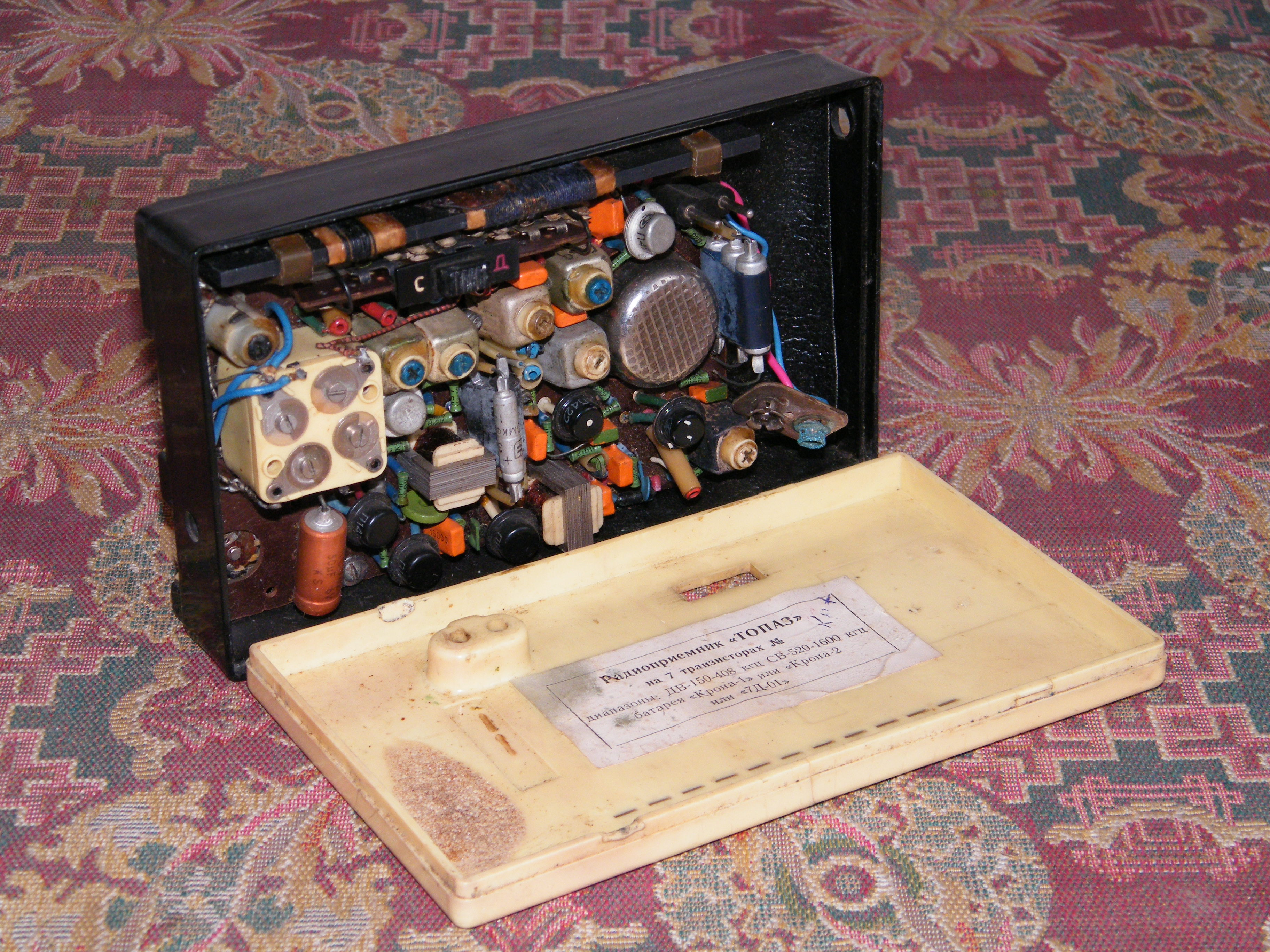 Topaz-2